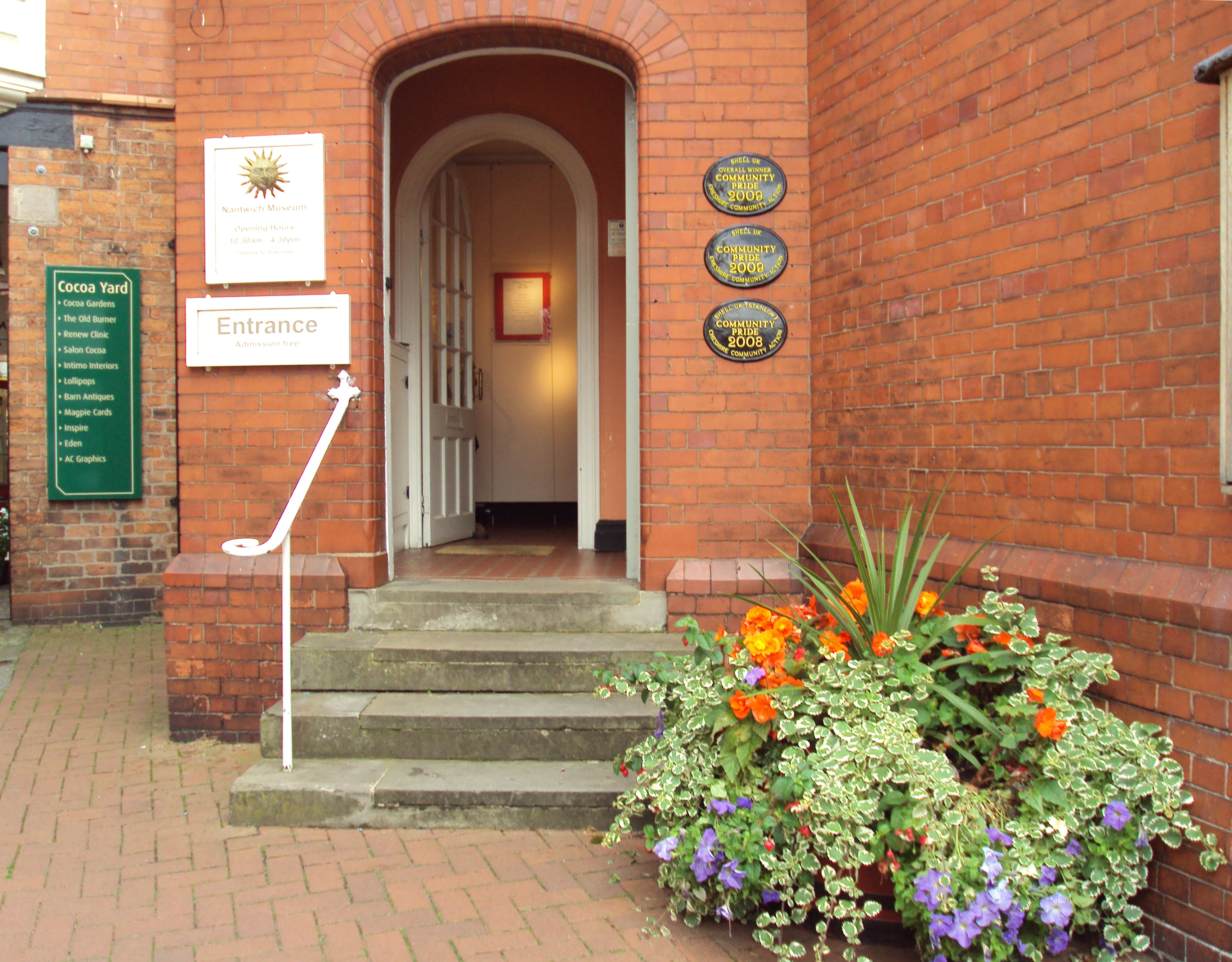 Entrance to Nantwich Museum, Cheshire, England.